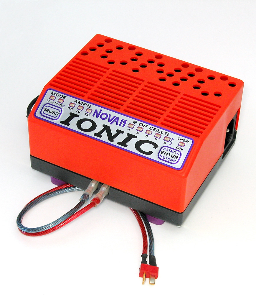 Novak Ionic AC/DC battery charger. The orange color has become the company's trademark and is used on almost all products. The original alligator clip charge leads have been changed with a W.S. Deans Ultra Plug for convenient charging of sport-type battery packs. Photo taken with a Canon PowerShot A95 camera.